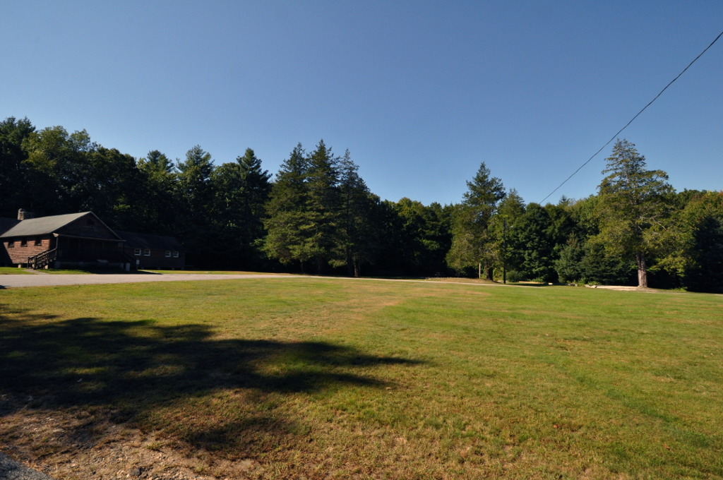 Upton State Forest-Civilian Conservation Corps Resources Historic District, Upton, Massachusetts.